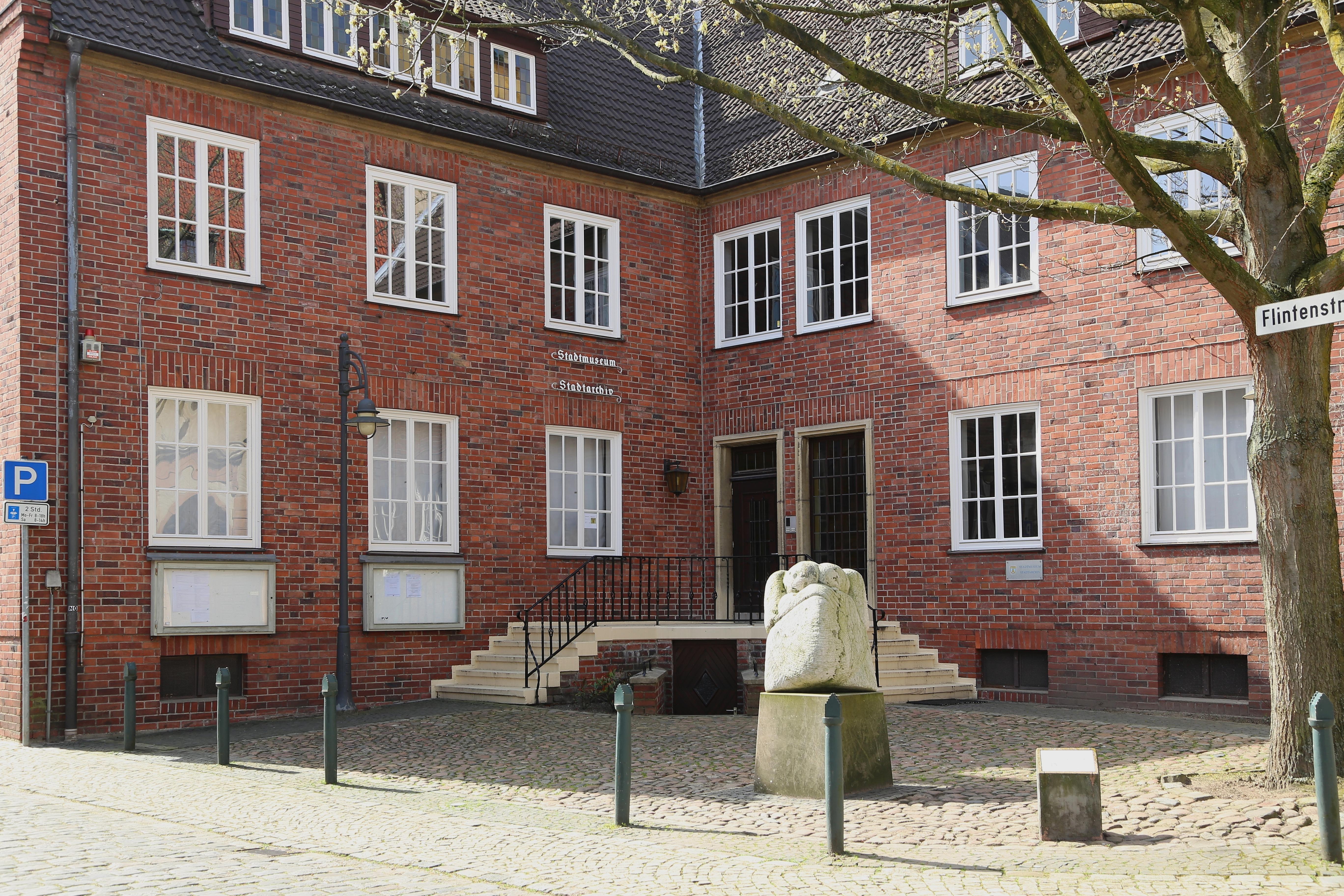 Local Museum and City Archive in Steinfurt-Burgsteinfurt, Kreis Steinfurt, North Rhine-Westphalia, Germany.